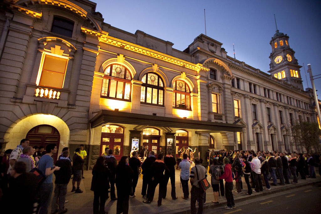 Photo of Auckland Town Hall from Flickr user "techedlive"